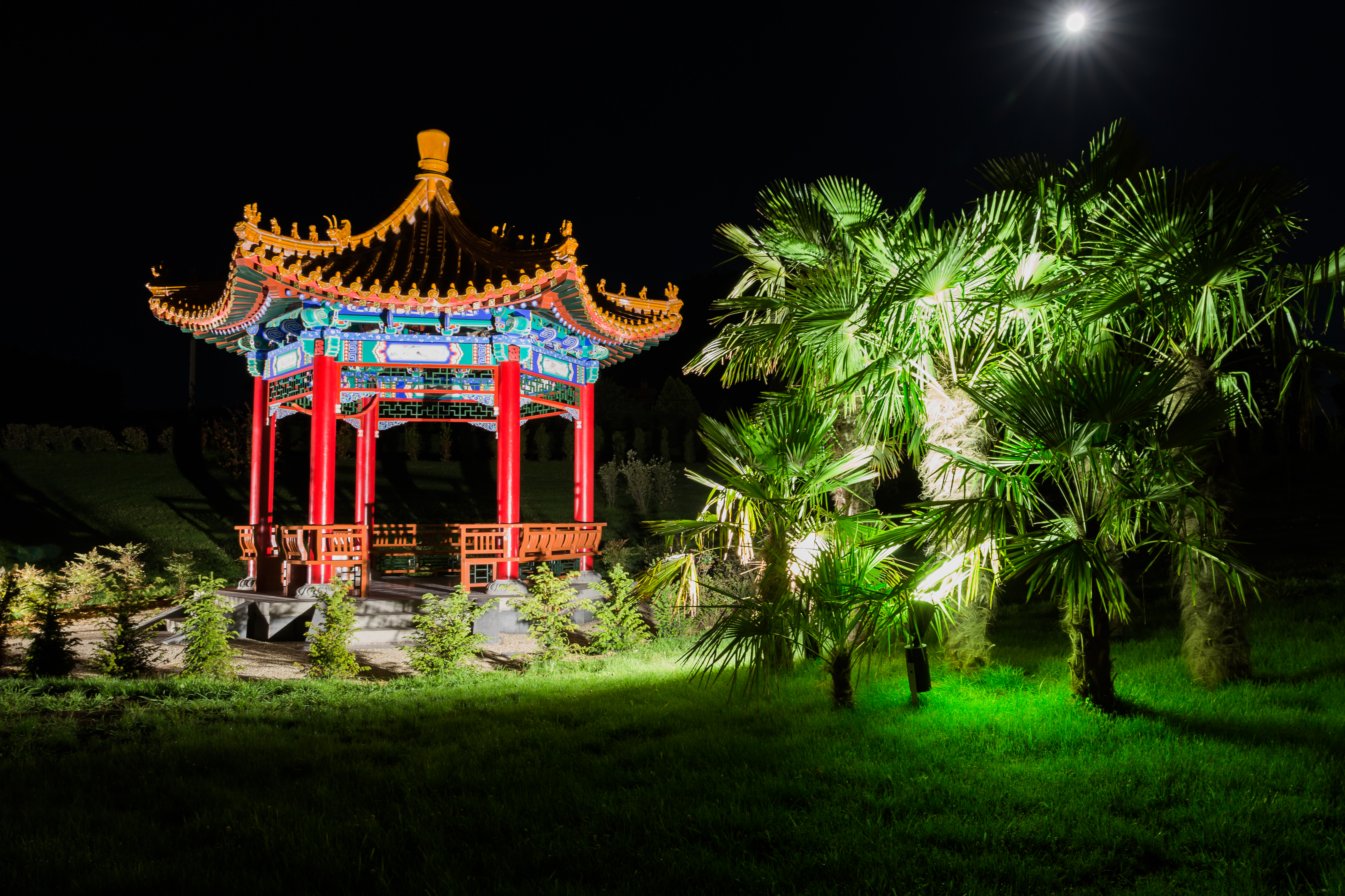 Pagoda in the gardens of the hotel Les Pagodes de Beauval to Seigy, France.